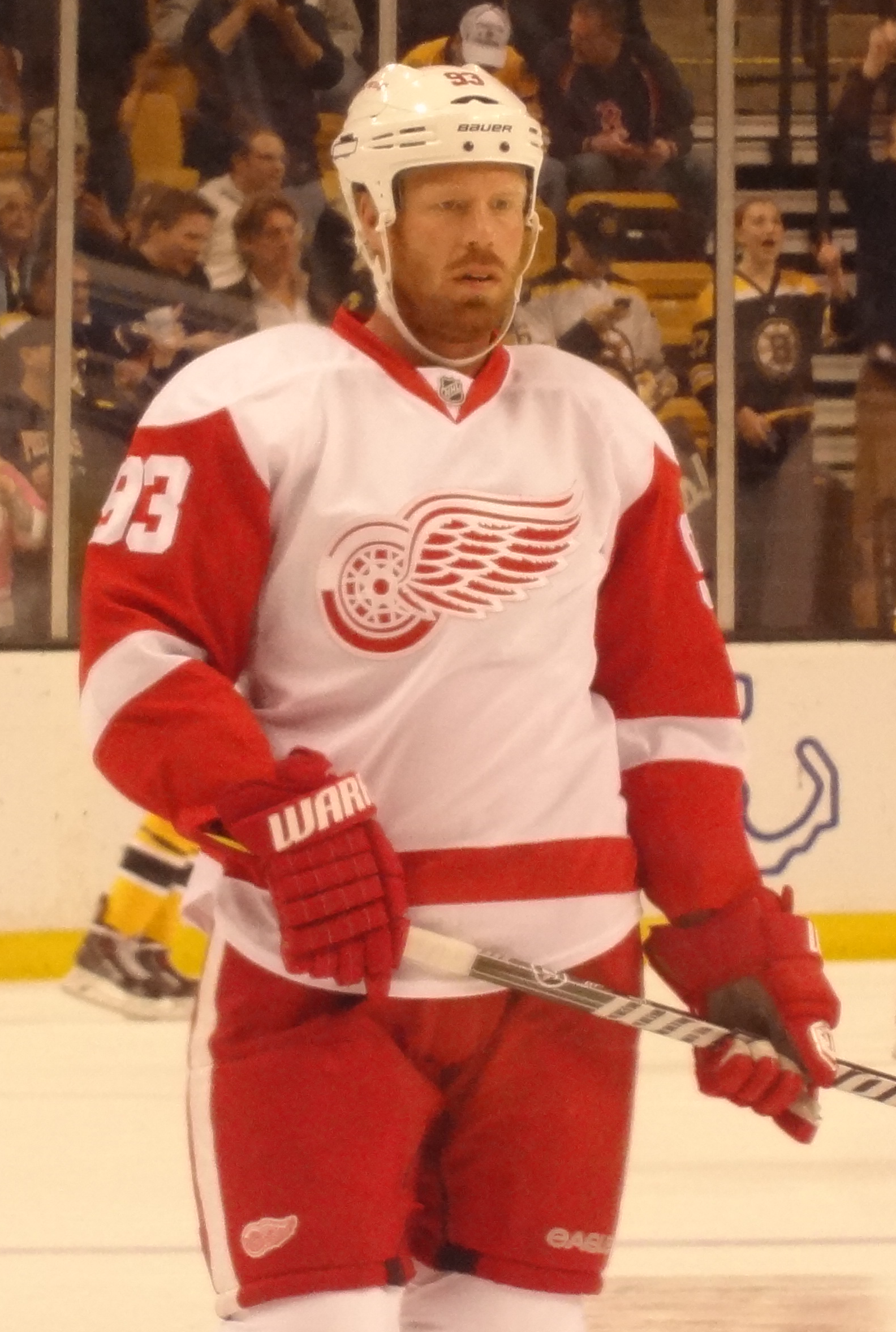 Johan Franzen at pre-game warm-ups on October 5, 2013 at TD Garden, Boston, MA prior to the Boston Bruins vs Detroit Red Wings game.